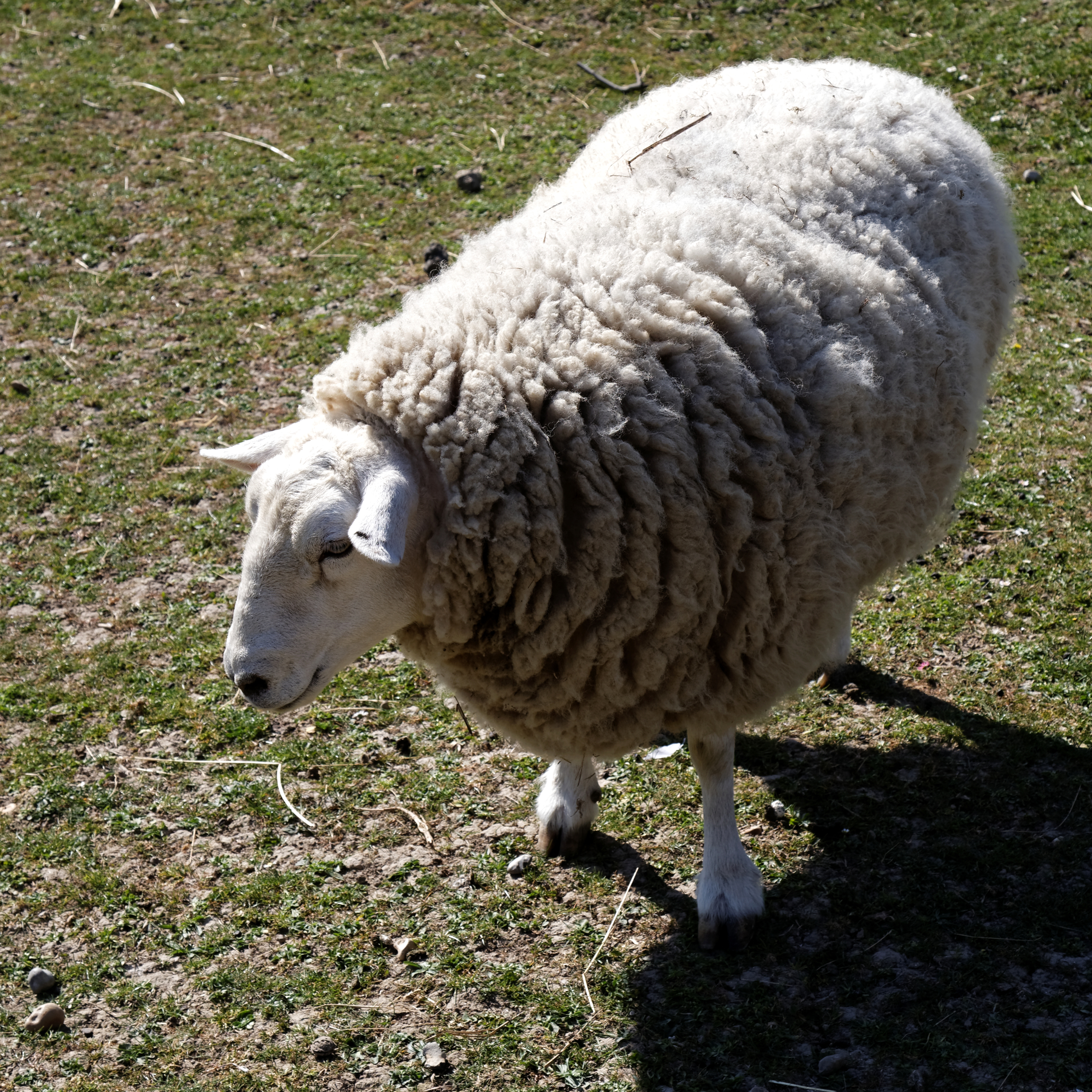 A sheep outside Quex Barn in Quex Park, in the civil parish of Birchington, in Kent, England.Camera: Canon EOS 6D with Canon EF 24-105mm F4L IS USM lens.Software: large RAW file lens-corrected, optimized and downsized with DxO OpticsPro 10 Elite, Viewpoint 2, and Adobe Photoshop CS2.